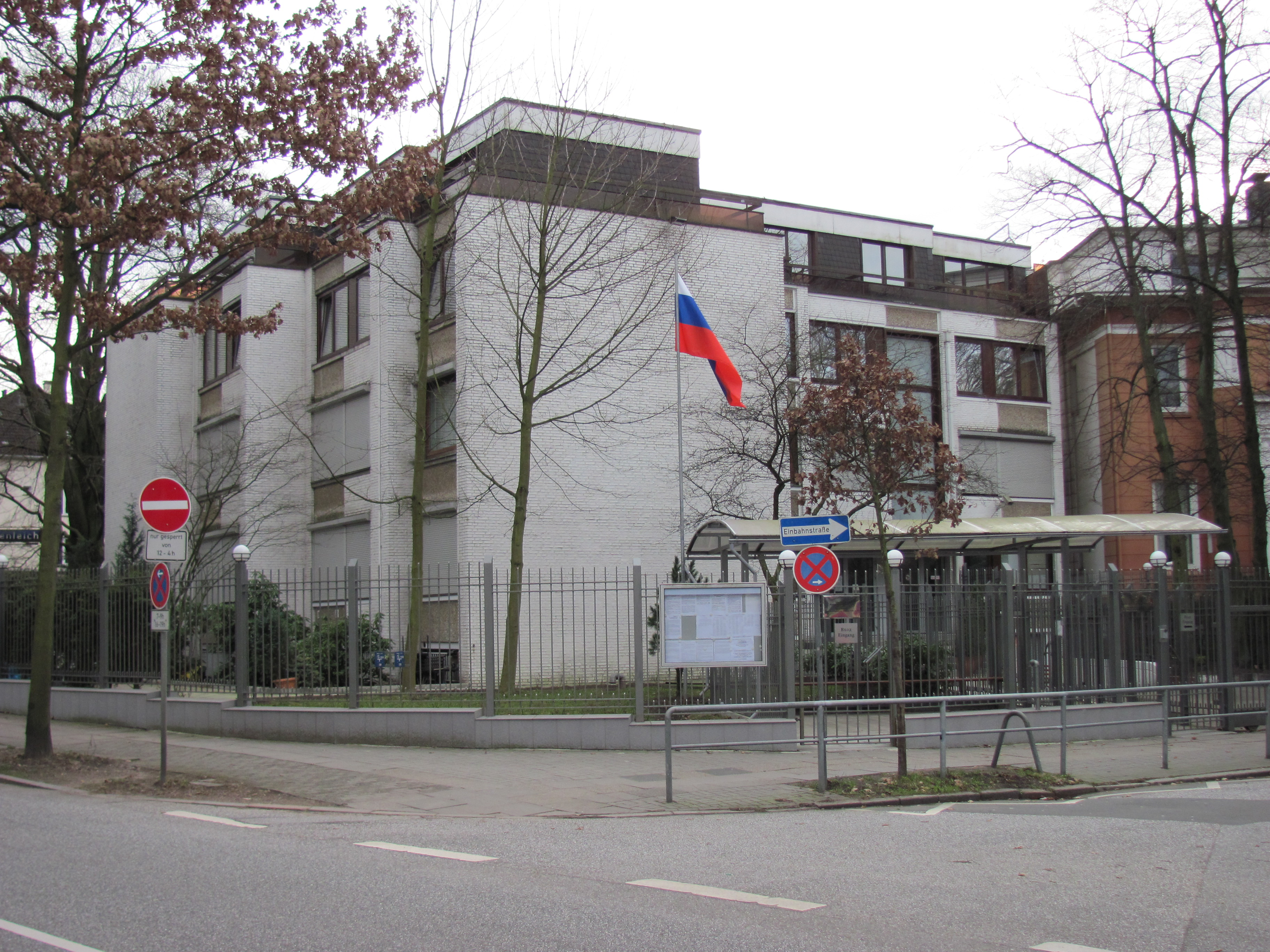 Russian embassy in Hamburg, February 2011